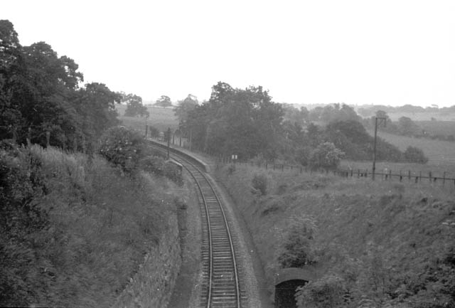 Pill Original description: Ham Green Halt This halt was mainly built to serve the nearby hospital. The line is still open to serve Portbury Docks